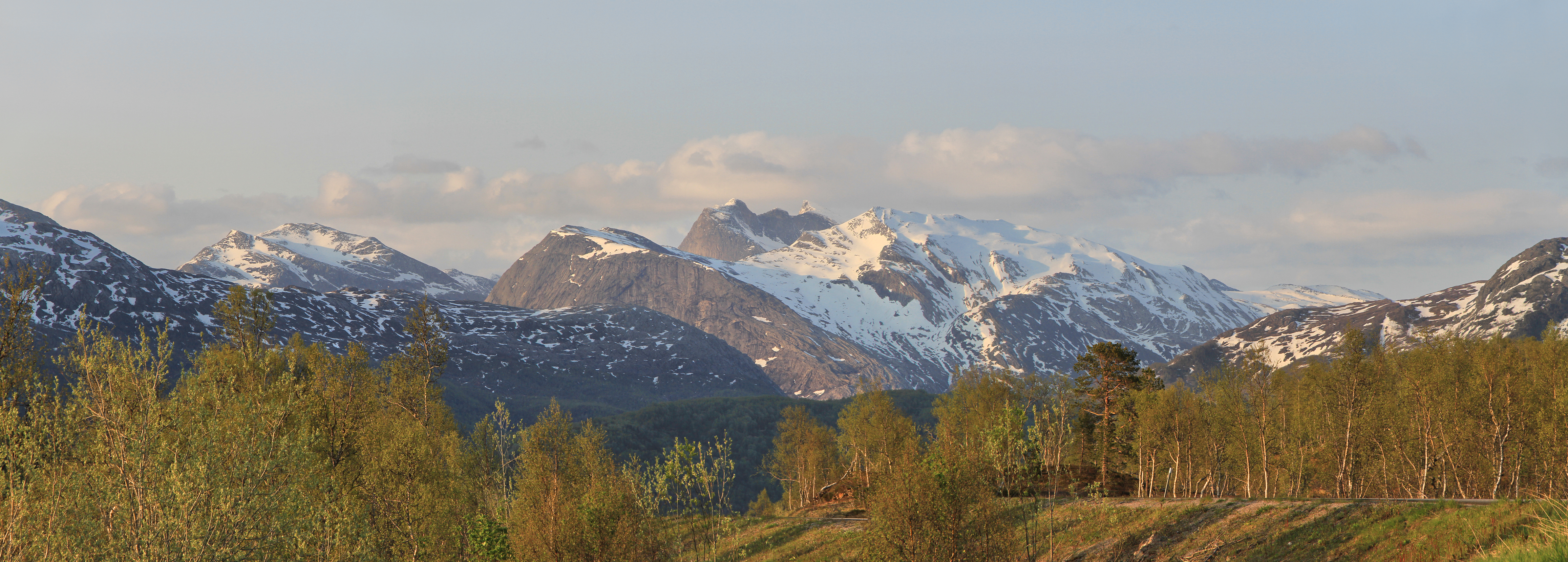 Kviturfjellet and part of Veikdalsisen as seen from the west in evening light in 2011 June.